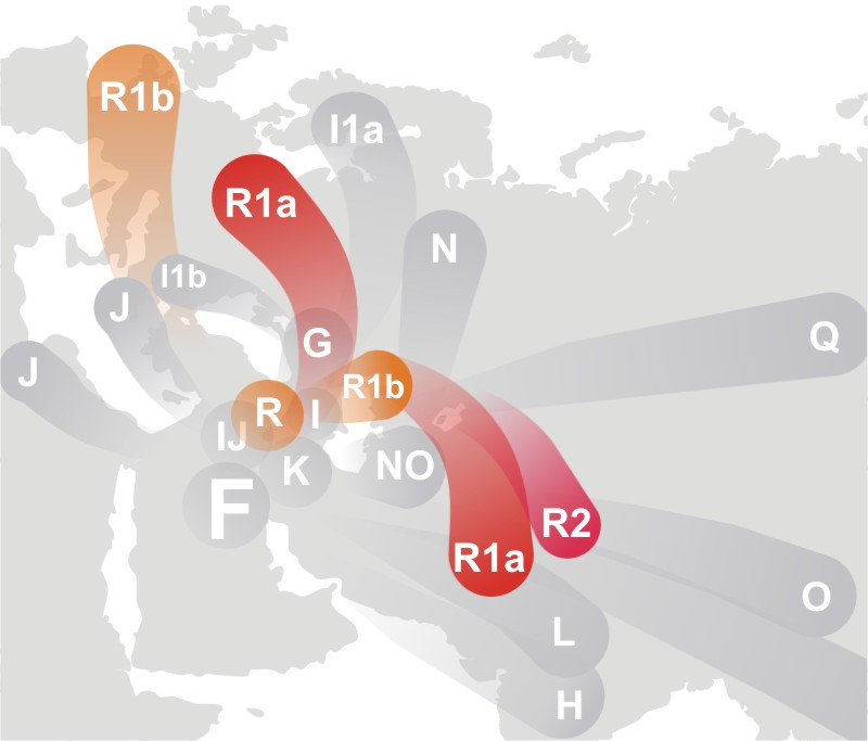 map showing the diversion of Haplogroup R (Y-DNA) and its descendants (with red and orange colors). Based on Kurgan hypothesis